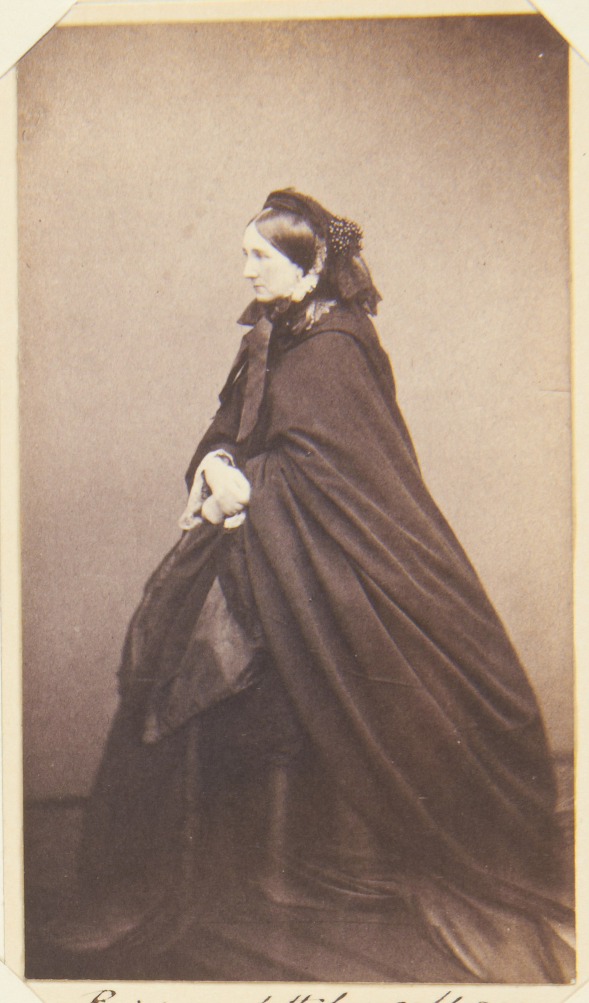 Josephine, Princess of Hohenzollern-Sigmaringen (nee Princess of Baden)